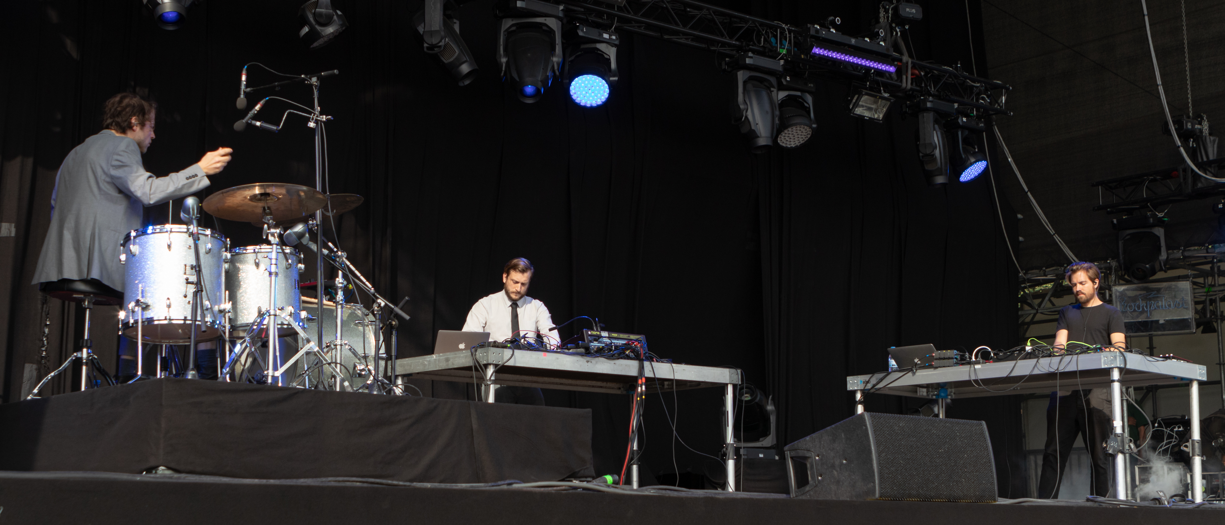 Brandt Brauer Frick on the Mainstage at Haldern Pop Festival 2019.